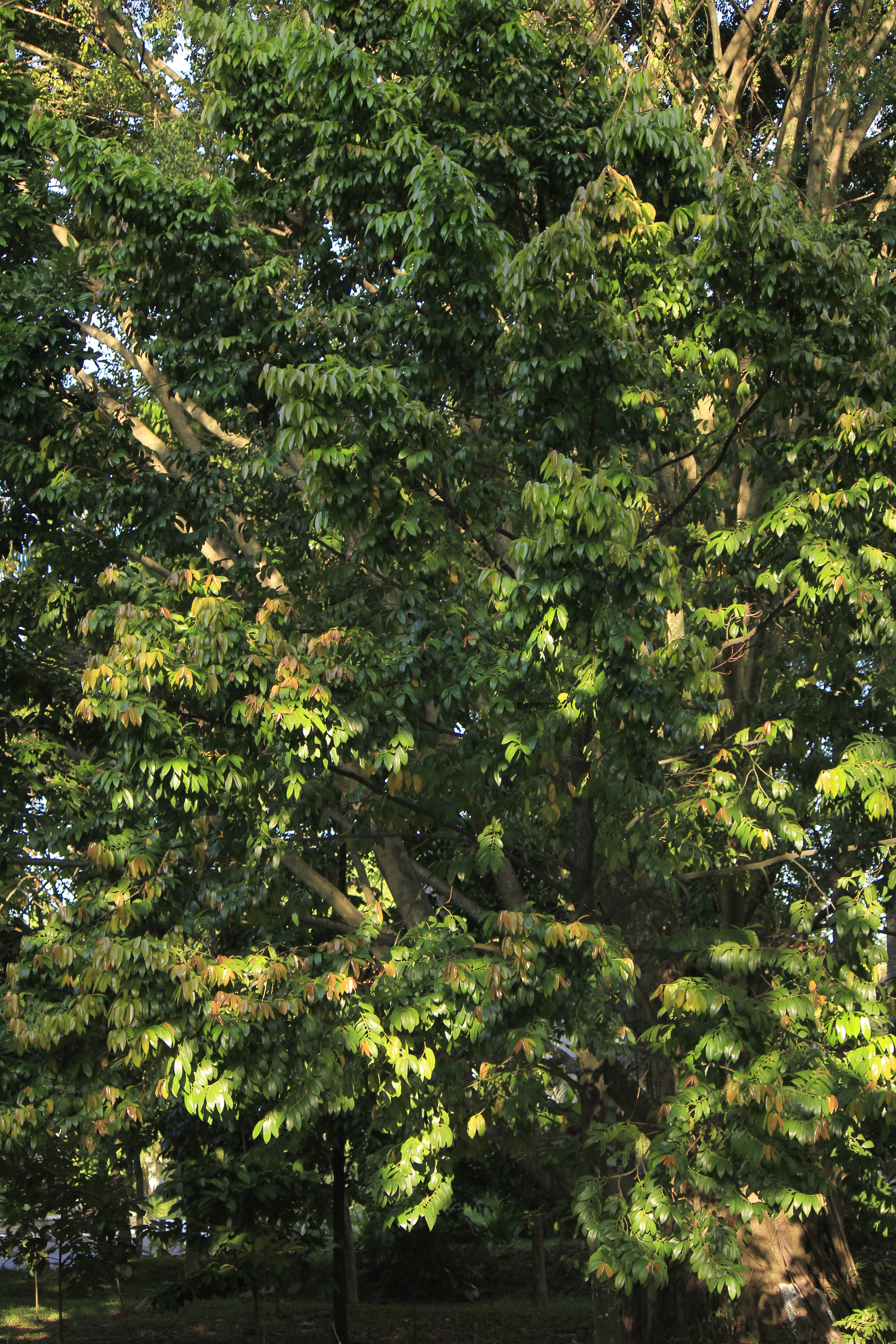 Sulawesi black ebony or Makassar ebony (Diospyros celebica) at Manado, North SulawesiBahasa Indonesia: Kayu hitam sulawesi (Diospyros celebica) di Manado, Sulawesi Utara